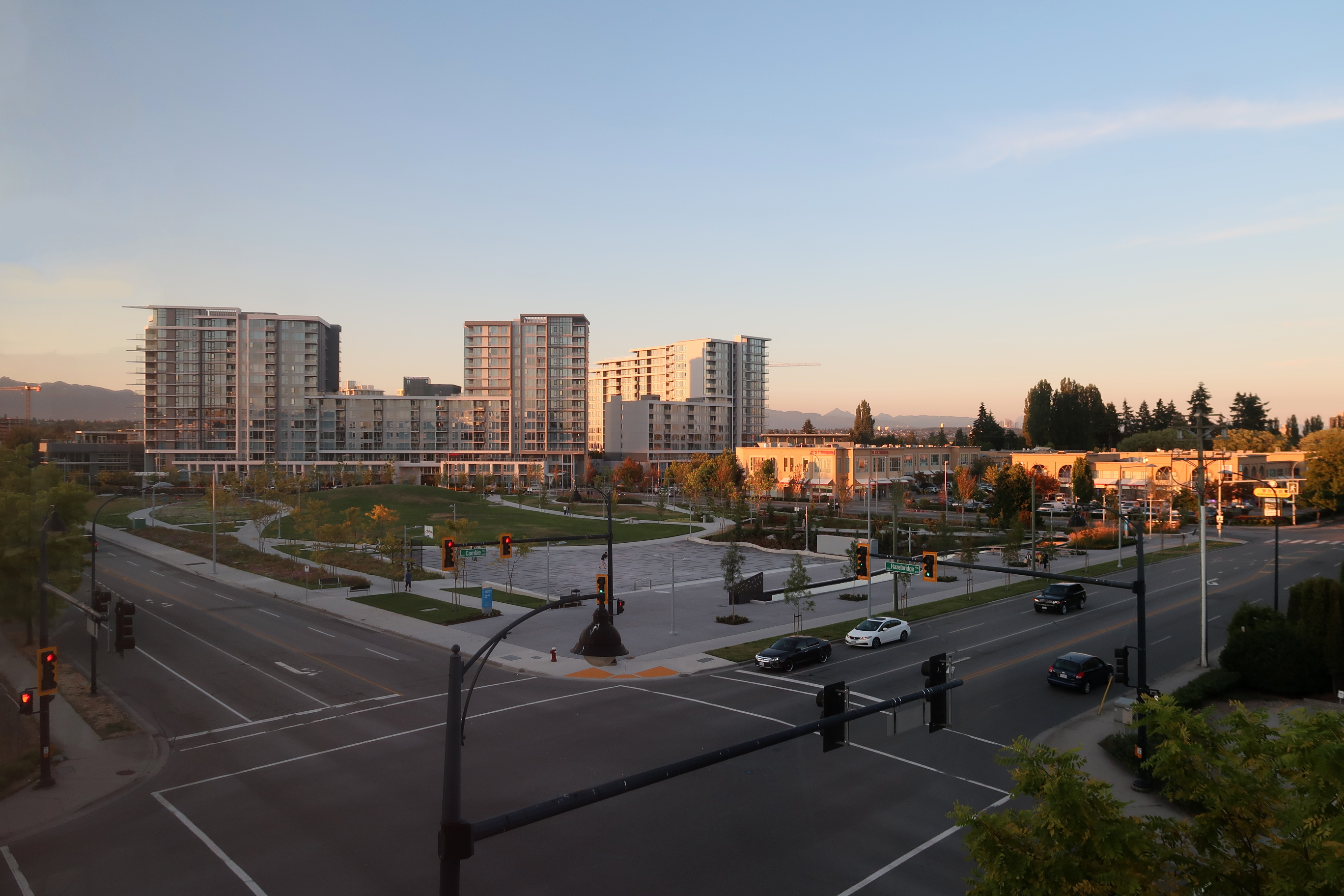 Golden Village Richmond. View from Aberdeen Centre, near the intersection of Hazelbridge and Cambie, facing northeast. Large condo complexes can be seen in the background, with Continental Centre on the right hand edge of the photograph.